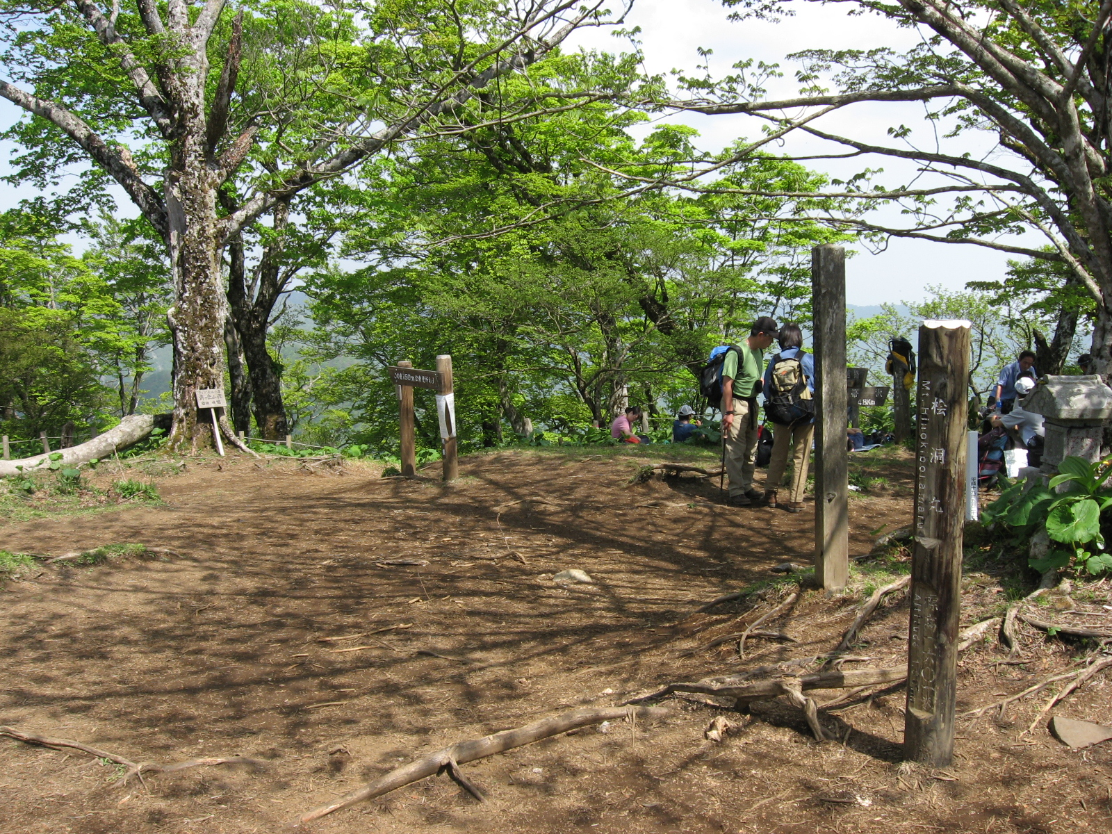 The summit of Mt.Hinokiboramaru(Hinokibora-maru, 檜洞丸, ひのきぼらまる) in Tanzawa Mountains, Kanagawa Pref., Japan.